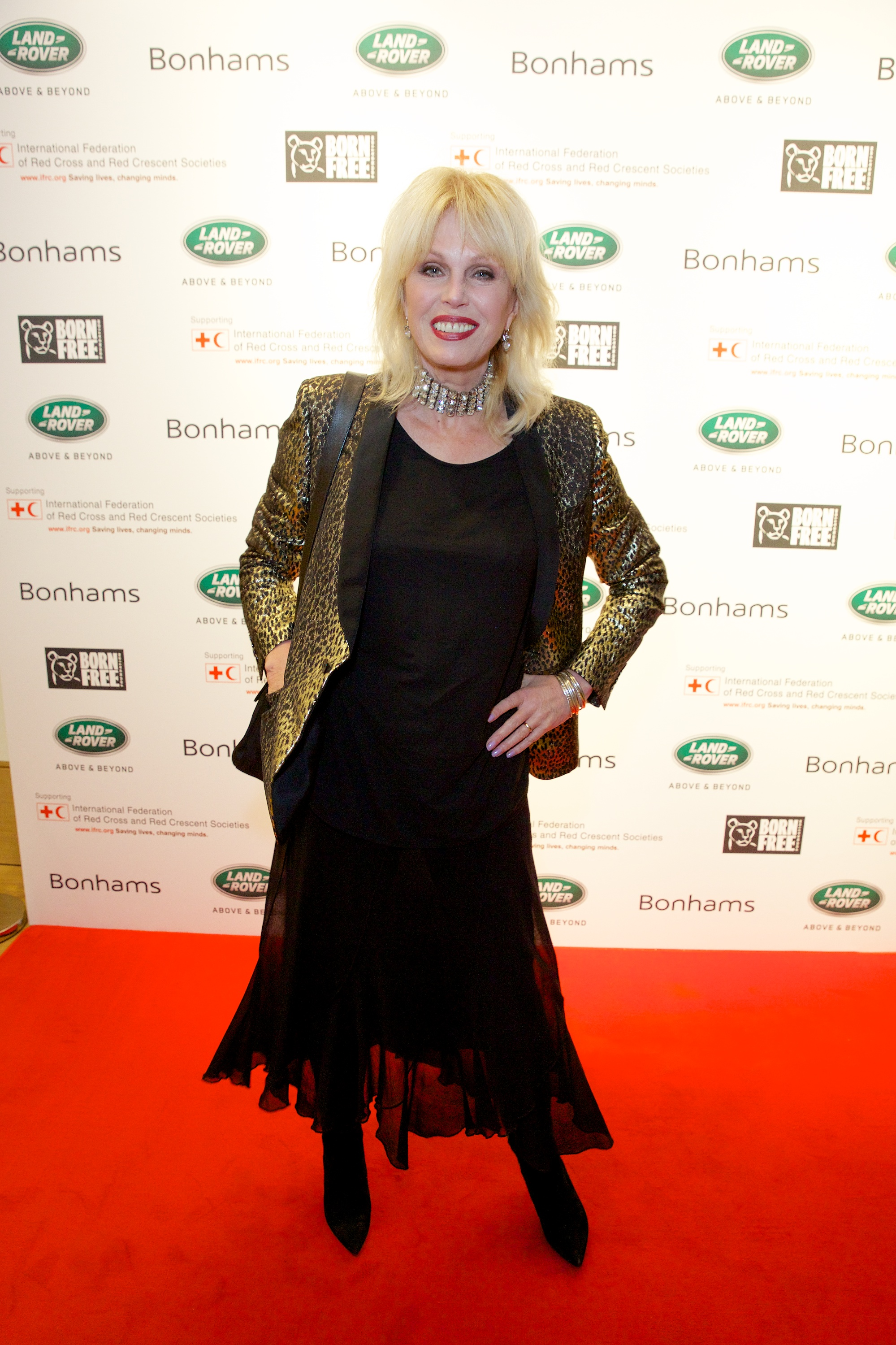 One-of-a-kind Land Rover ‘Defender 2,000,000’ sold for £400,000 at prestigious charity auction at Bonhams thought to be most valuable production Land Rover ever to be sold at auction